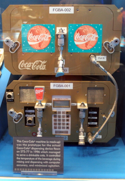 Mock-up of the coke dispenser flown aboard STS-77 in 1996, taken at the Astronaut Hall of Fame in Cape Canaveral, Florida